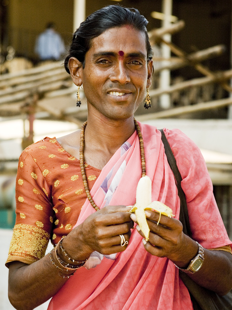 Michael Garten, Self Made work, for use please